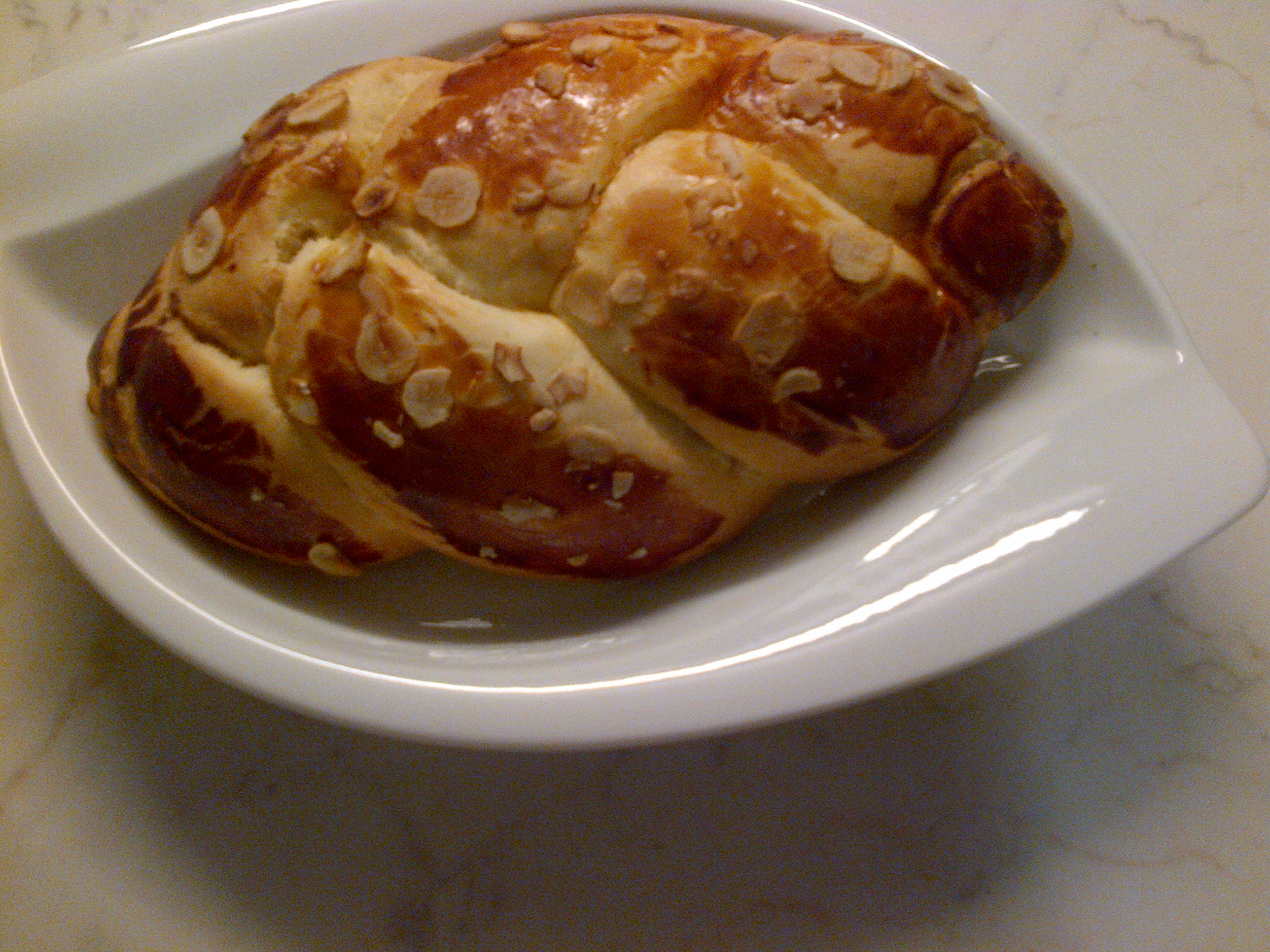 Paskalya çöreği from Bulka Pastanesi in Bahçelievler, Ankara. Bulka Pastaneleri (est 1975) are one of the traditional bakery cafes of Ankara.